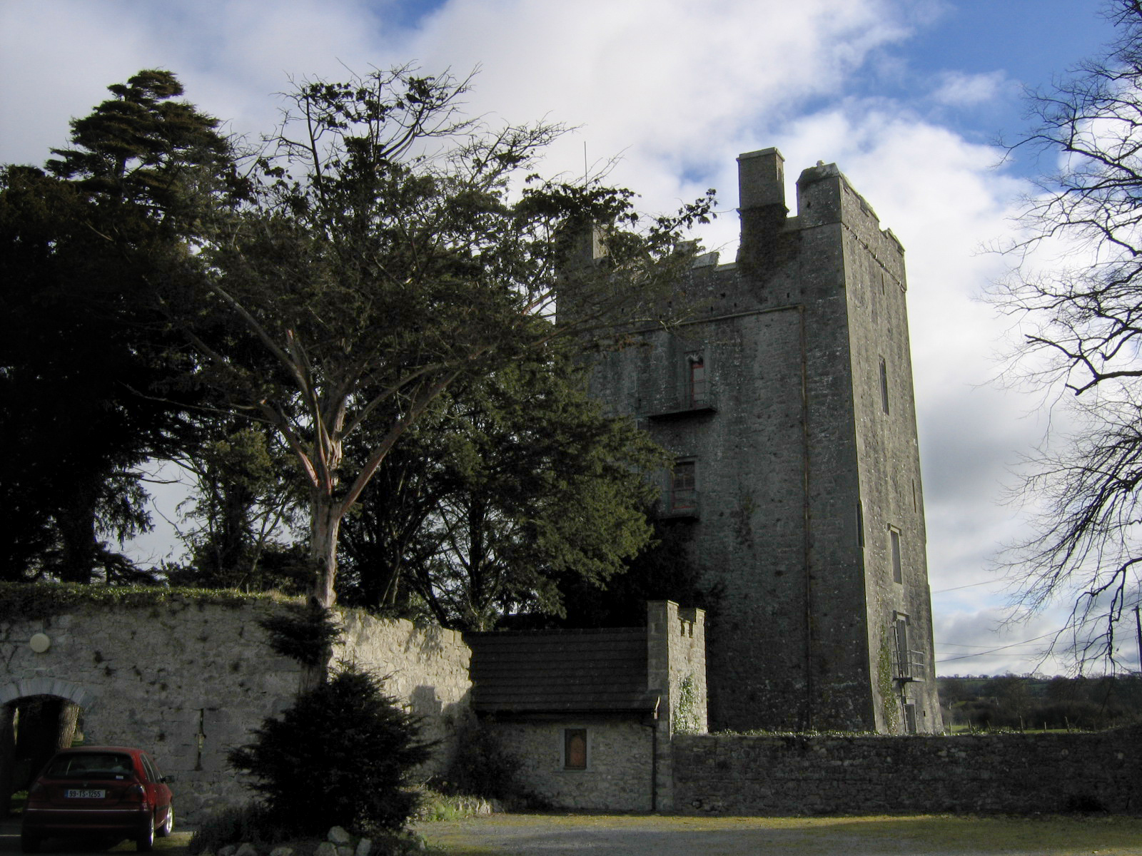 Foulksrath Castle, County Kilkenny, Republic of Ireland.